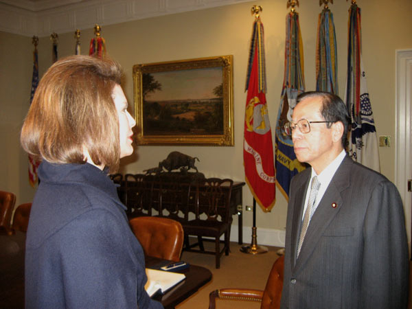 Ambassador Nancy G. Brinker greets Prime Minister Yasuo Fukuda of Japan before his meeting with President Bush, November 16, 2007.